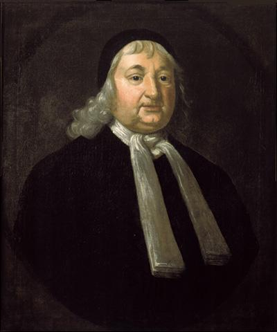 Massachusetts colonial magistrate Samuel Sewall (1652-1730).